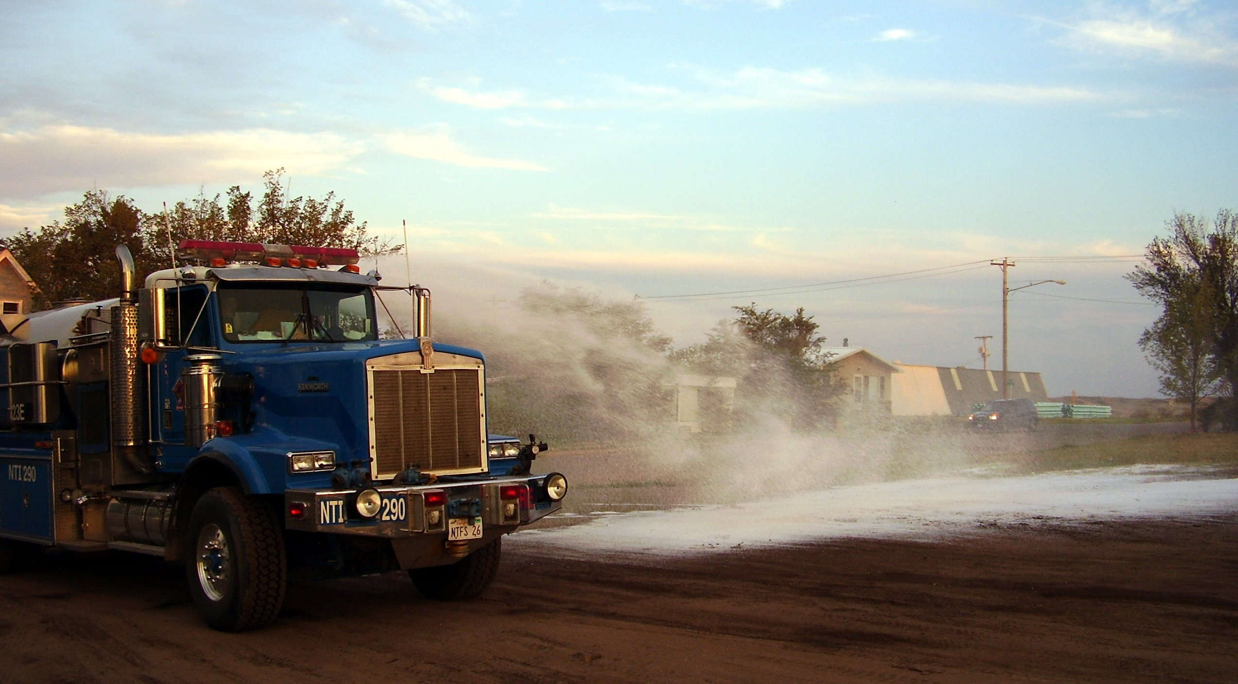 A water tender demonstrating the CAFS unit, with foam on the ground.